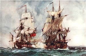 A painting of the capture of the French frigate Reunion by the British frigate HMS Crescent on 20 October 1793. Painted by Charles Dixon (1872-1934) and published in 1901.